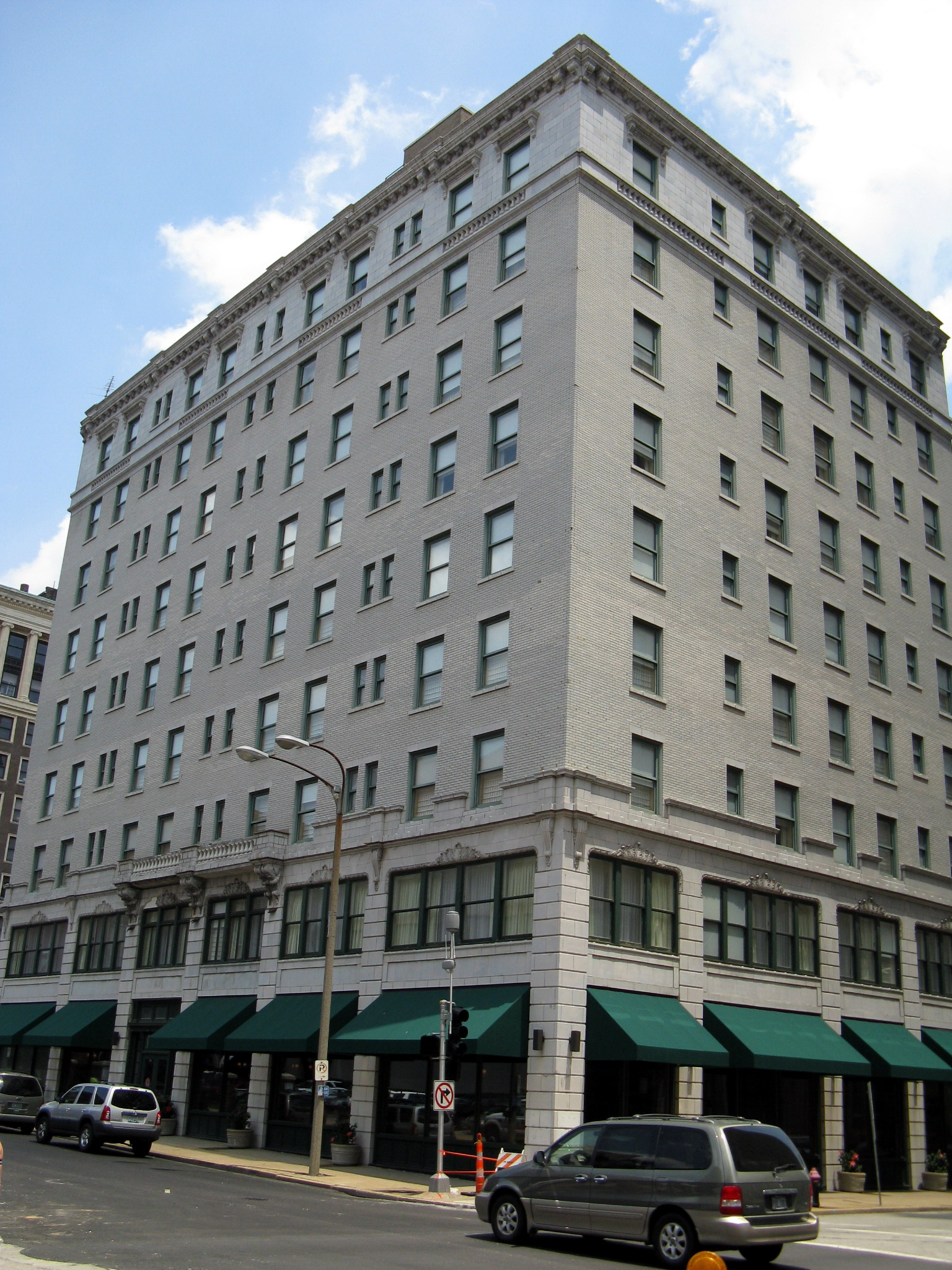 The Majestic Hotel at Pine Street & N 11th Street in downtown St. Louis. It was built in 1914 and is on the National Register.